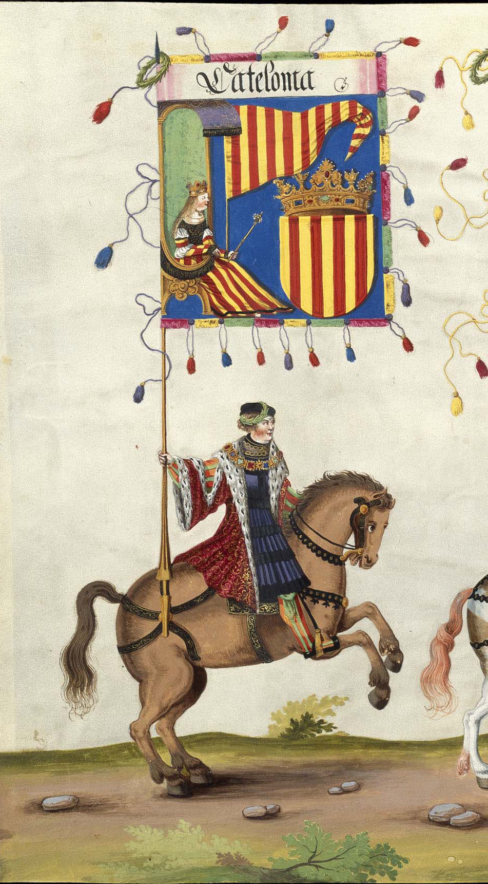 Flag of Catalonia in the Emperor Maximilian triumphal.